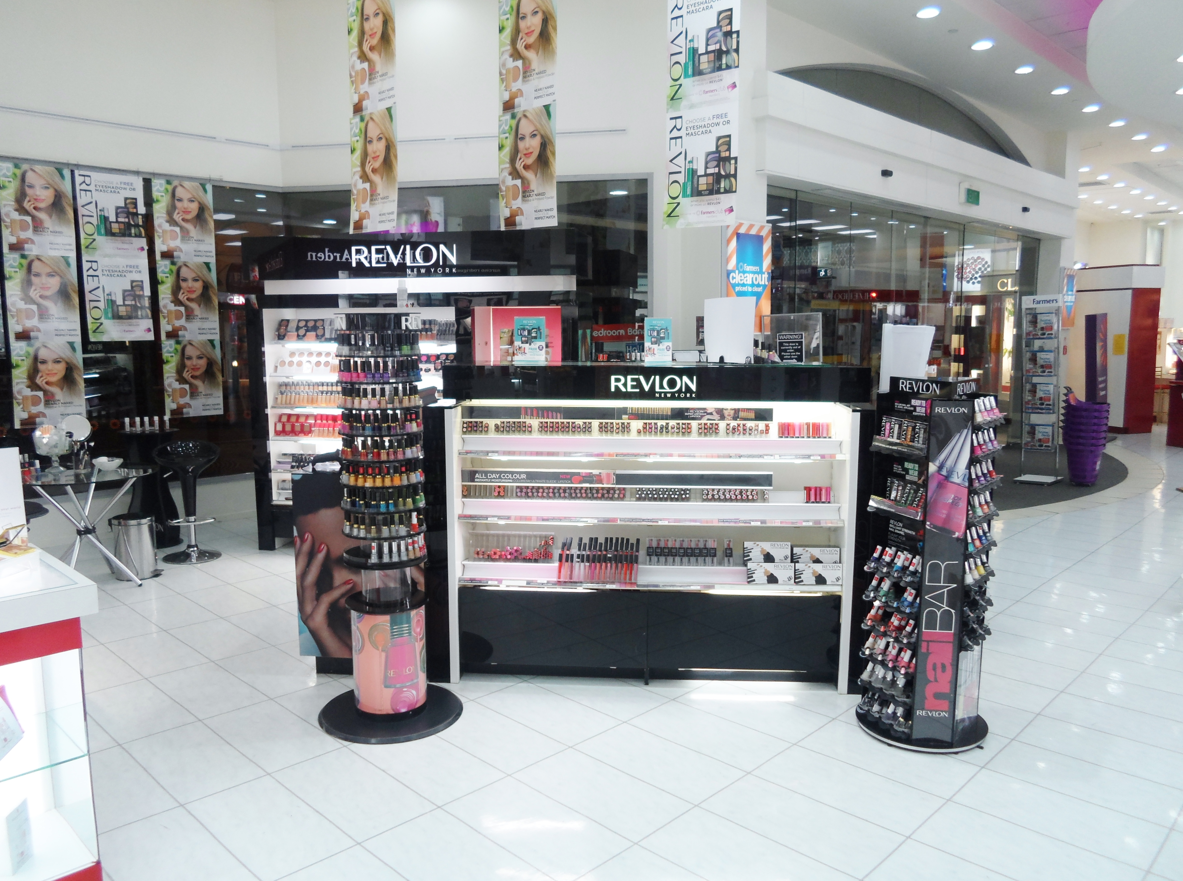 Revlon counter at New Zealand department store Farmers in Dunedin in 2013.